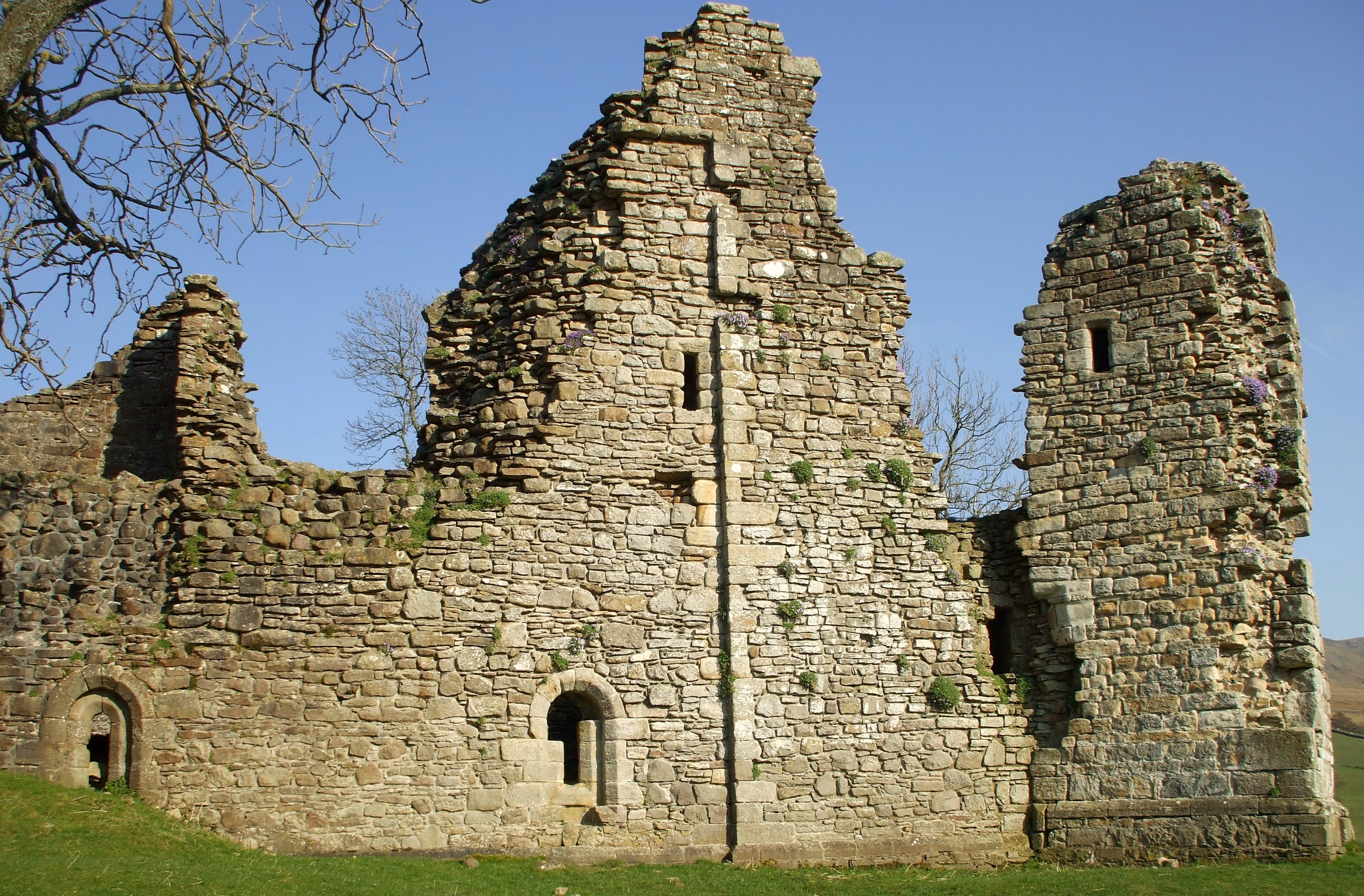 West wall of Pendragon Castle Built as a Late Norman pele tower. It was burnt by the Scots in 1541, but was restored by Lady Anne Clifford in 1660; however by the mid 18thC it had become a ruin again.